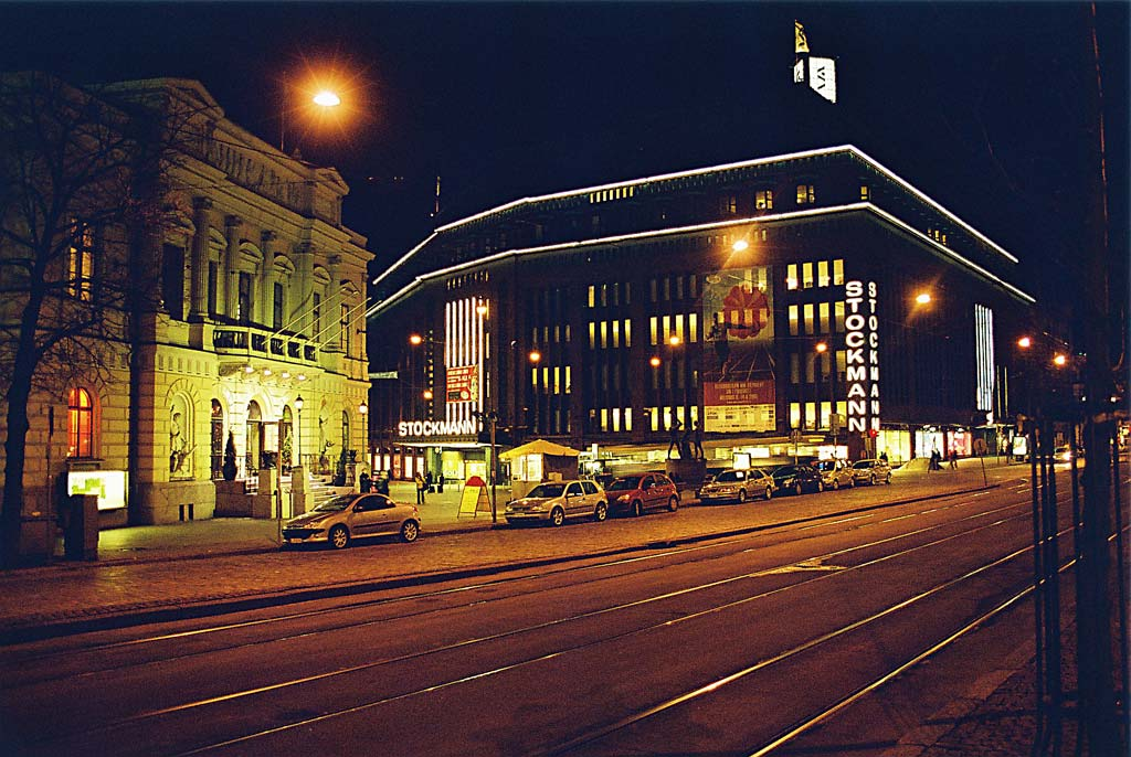 Stockmann department store in Helsinki, Finland, by night